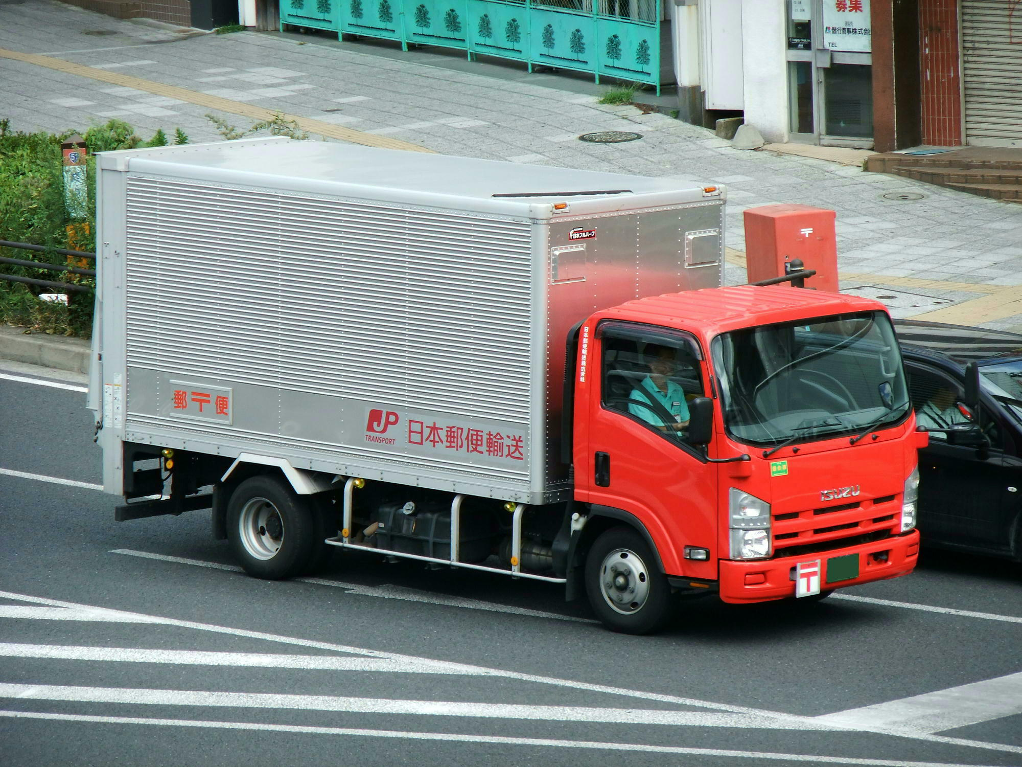 ISUZU ELF 6th Generation, Post Office Truck,（Model name is ELF in the Japanese market） （It is called N-series or REWARD excluding a Japanese market.）